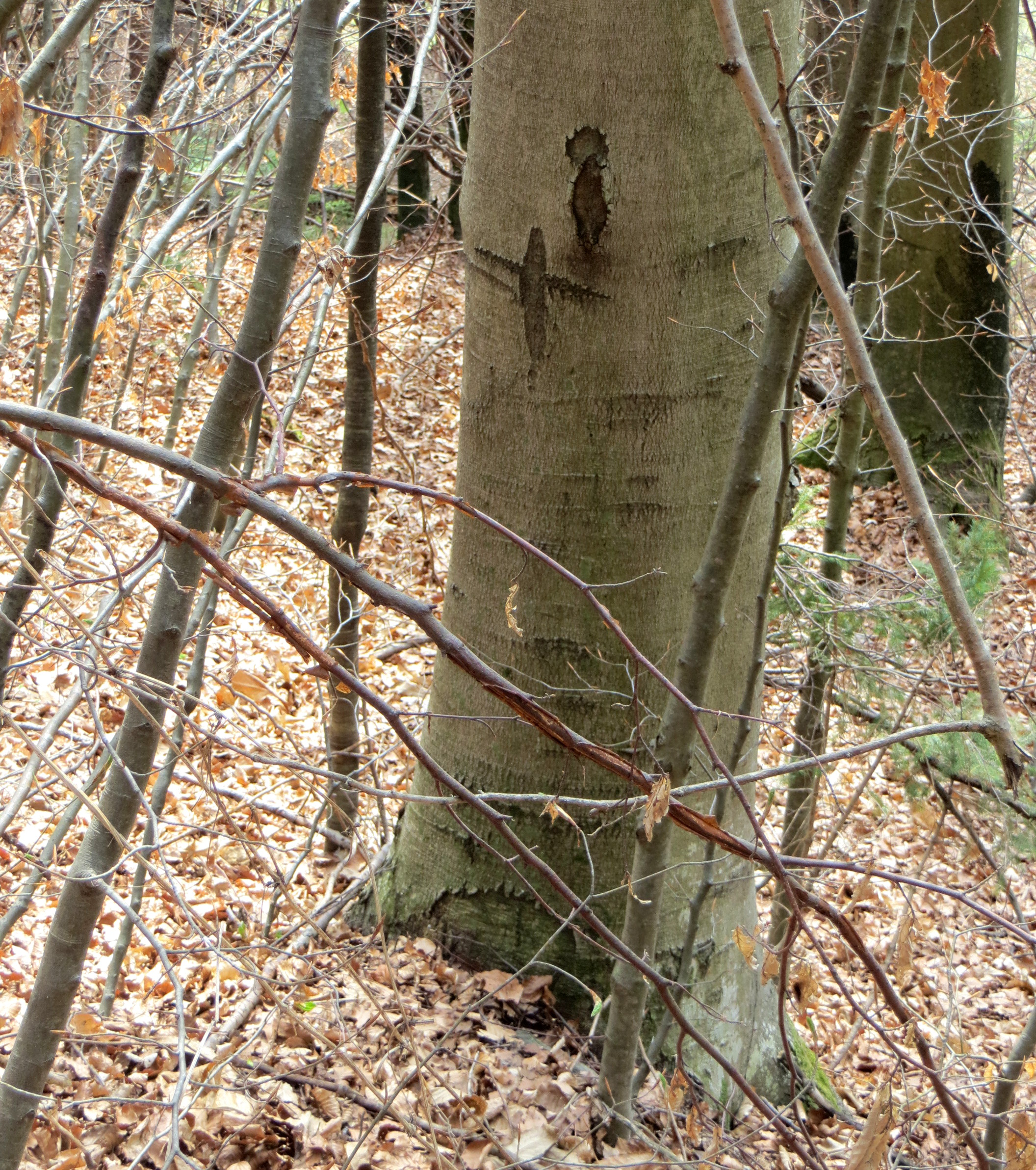 Beech tree marked with a cross near the Breznica Grave in Breznica pod Lubnikom, Municipality of Škofja Loka, Slovenia